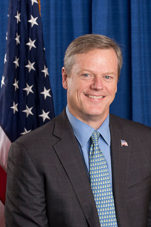 Charlie Baker was inaugurated on January 8th, 2015 as the 72nd Governor of the Commonwealth of Massachusetts.